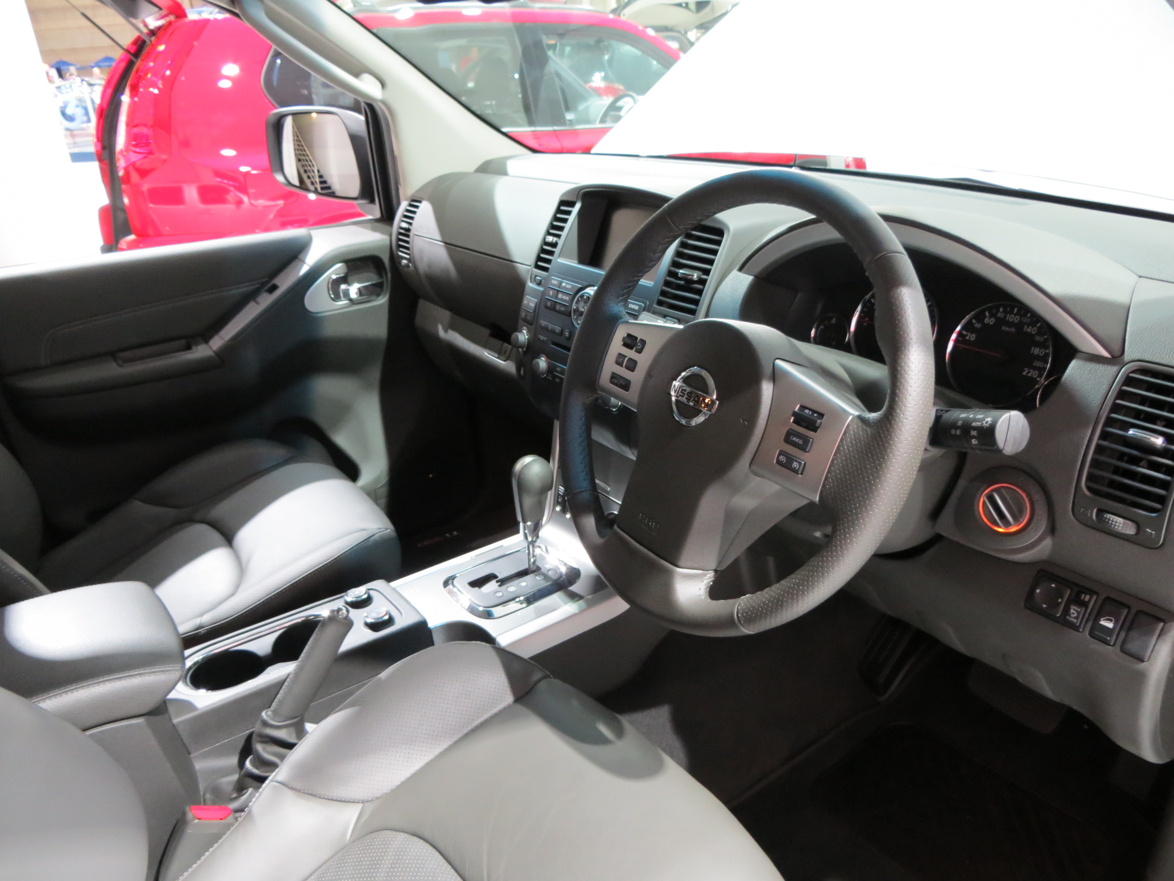 2012 Nissan Pathfinder (R51 MY10) Ti 550 wagon. Photographed at the 2012 Australian International Motor Show, Sydney, New South Wales, Australia.